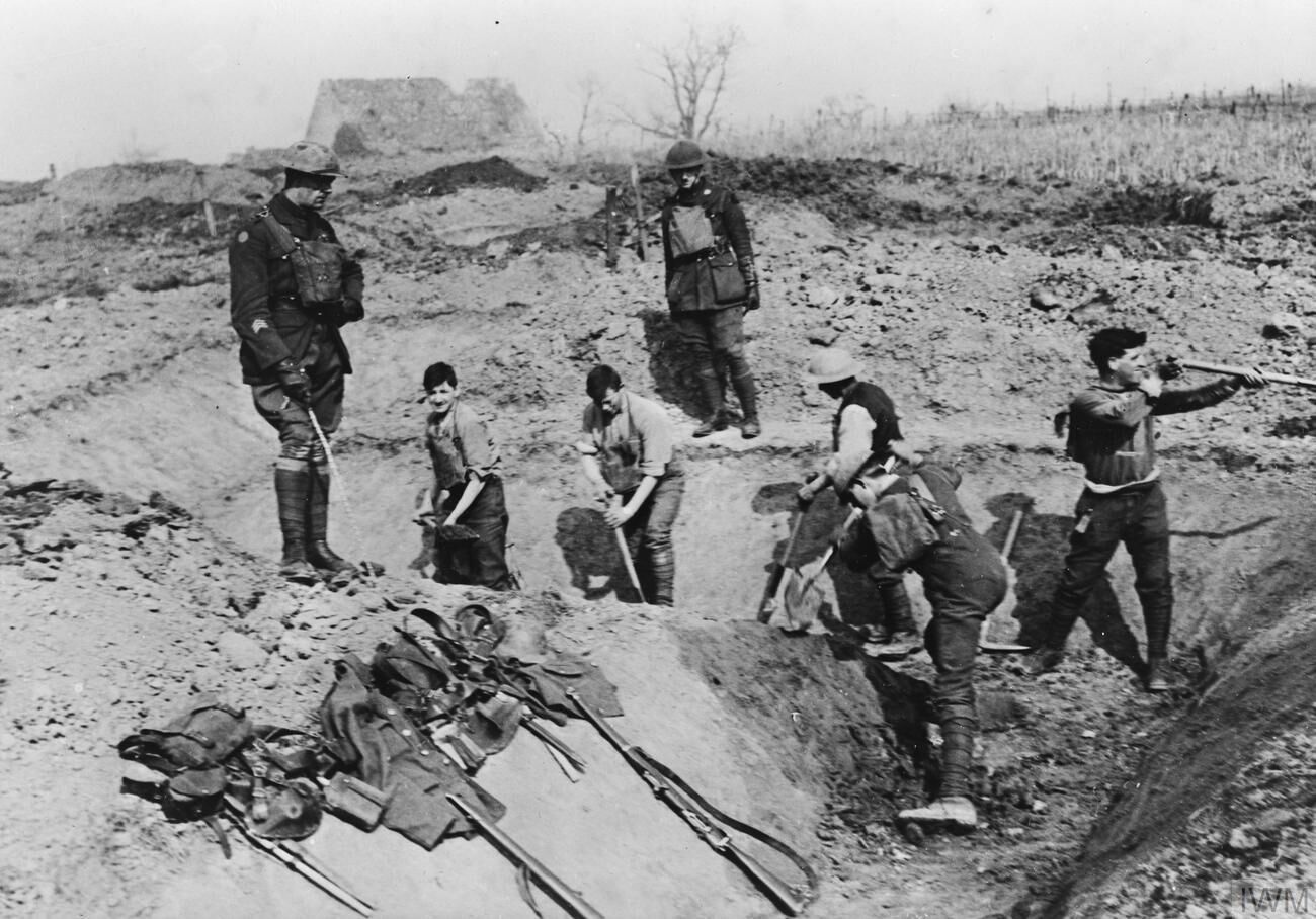 The 13th Battlion, Welsh Regiment entrenching to construct rear lines of defence at Houplines (30th Division), 13 March 1918.